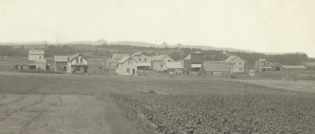 Postcard postmarked 27 August 1915 showing the small settlement of Trail in Polk County, Minnesota, United States